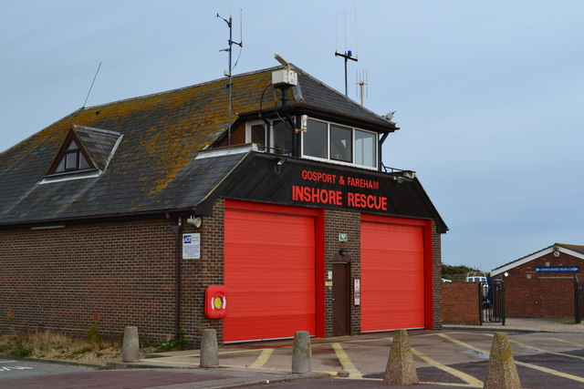 Gosport and Fareham Inshore Rescue Boat Station